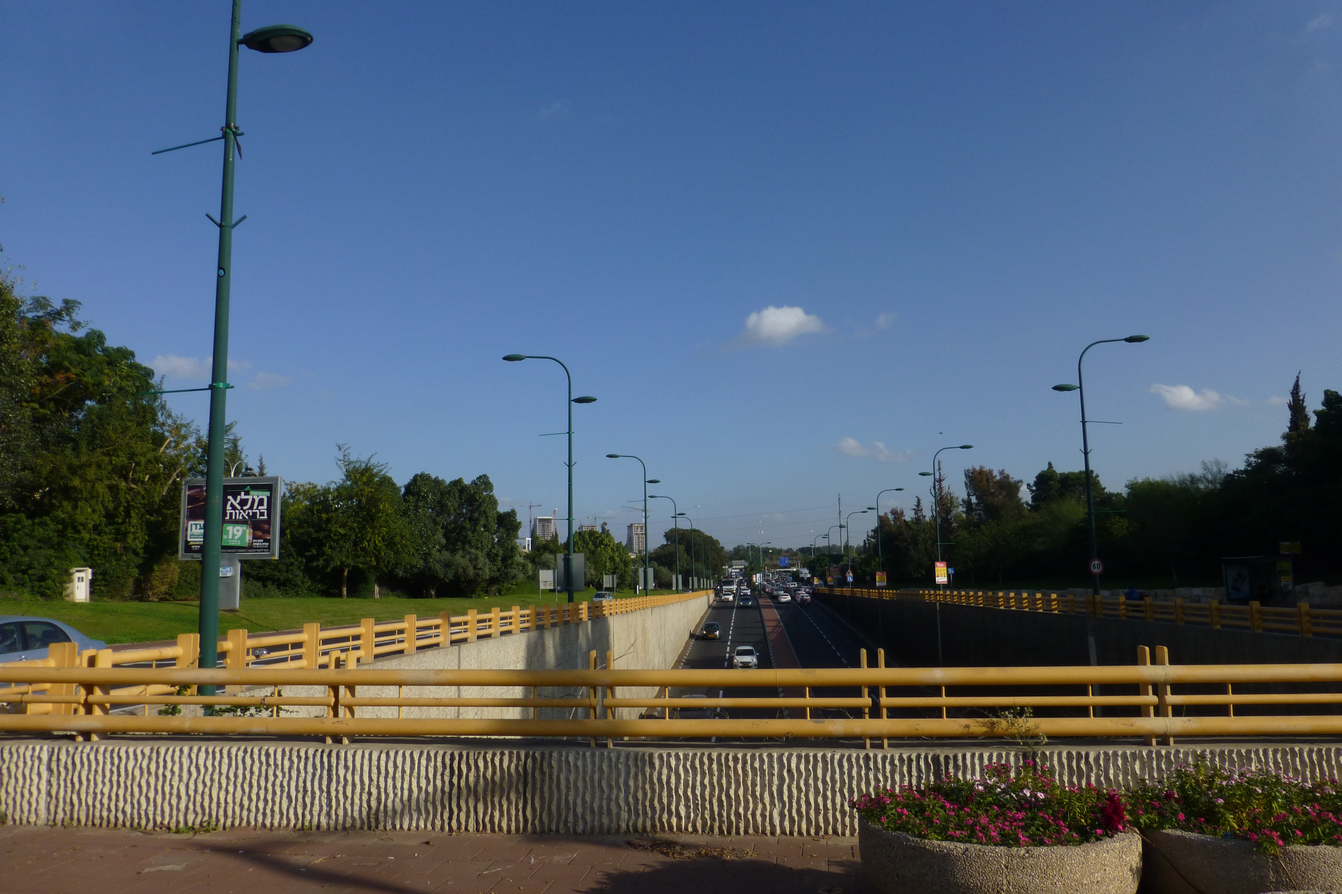 Aluf Sadeh interchange